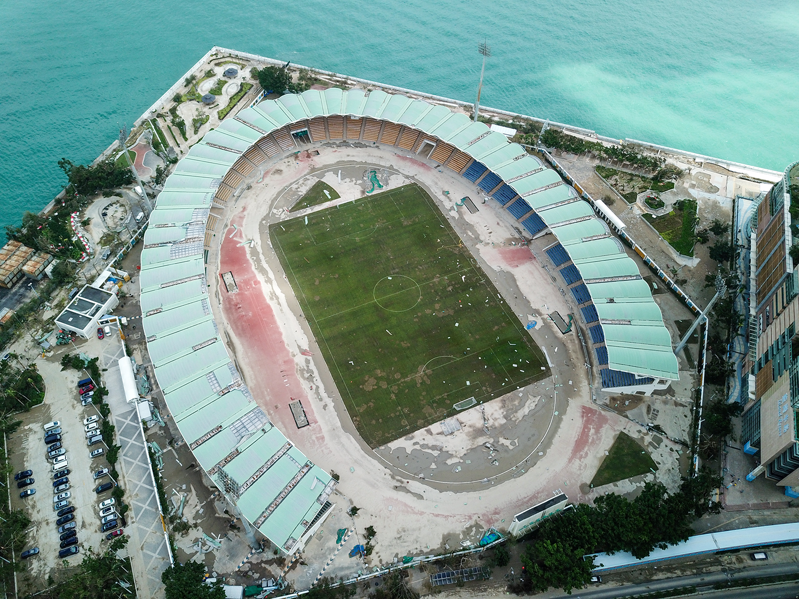 Siu Sai Wan Sports Ground after Typhoon Mangkhut